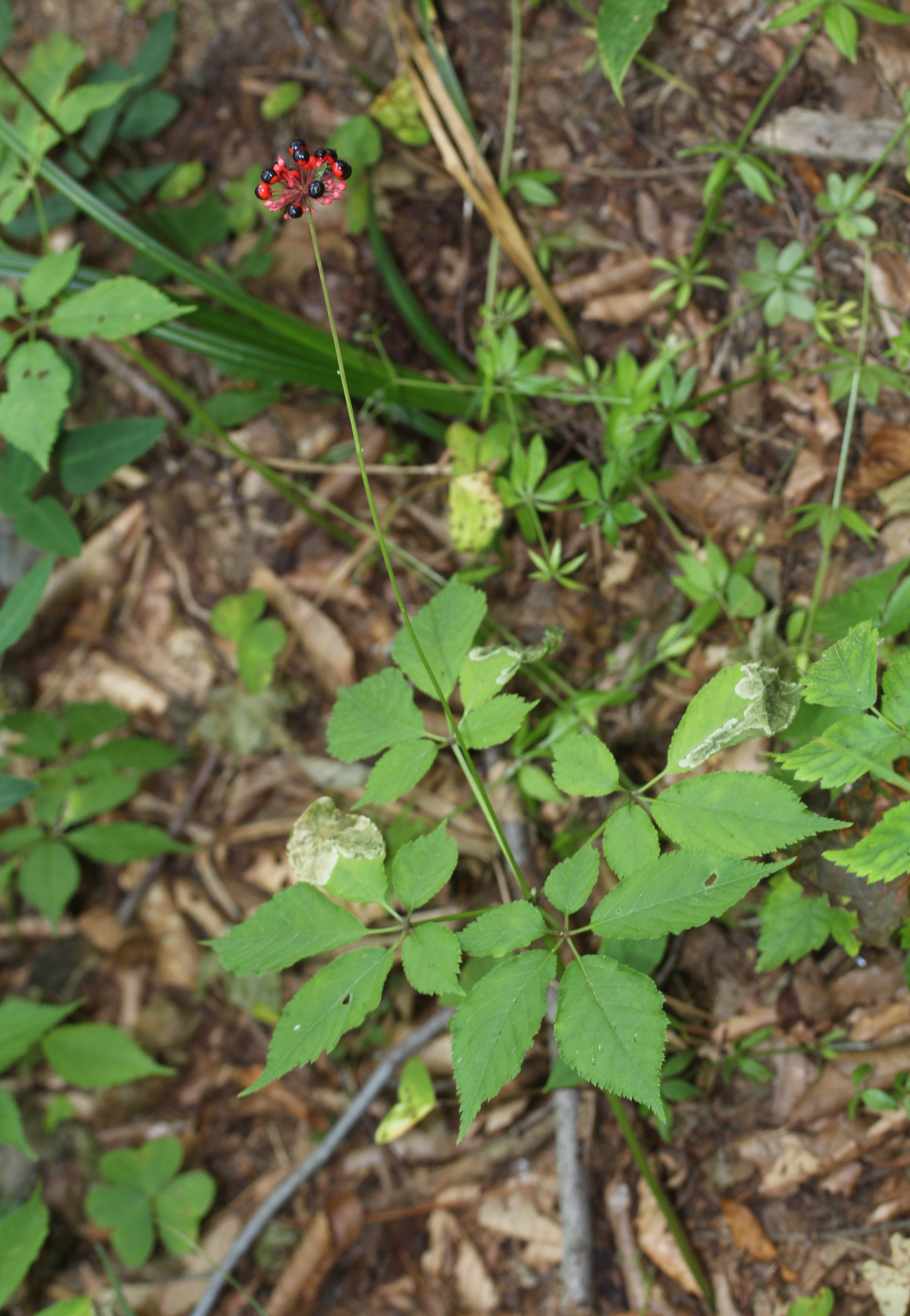 Panax japonicus in Mount Yokoyama, Nagahama, Shiga prefecture, Japan.